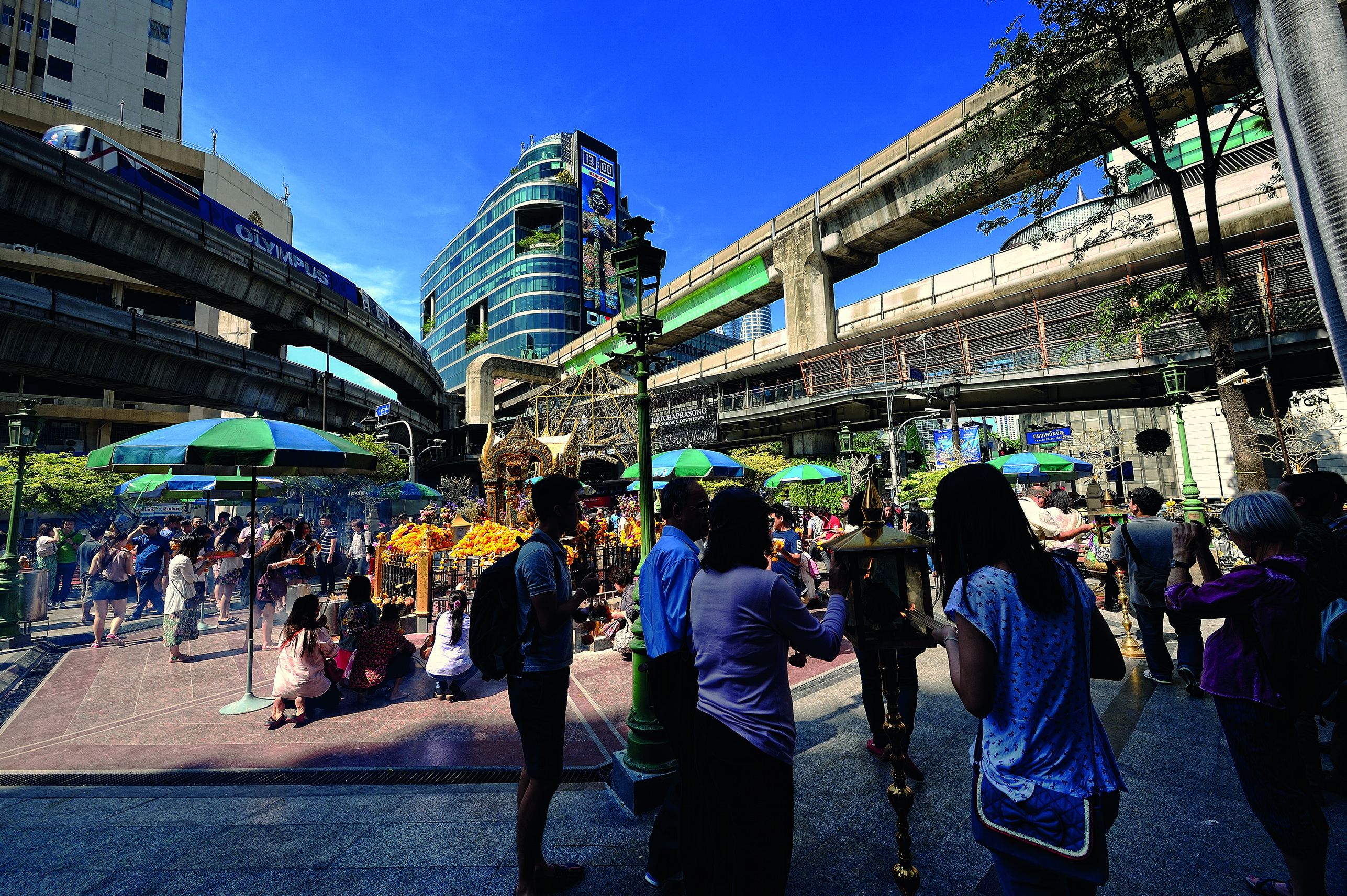 Erawan Shrine, also called “Phra Prom Erawan”, is located at the front of Grand Hyatt Erawan Hotel, at the Ratchaprasong intersection in Lumpinee subdistrict, Pathumwan district. The reason behind construction of this shrine was that Pol.Gen. Phao Sriyanond, then Director General of Thailand's national police, had a plan to build Erawan hotel, but there were several difficulties and accidents during the construction. Thus, this project was frequently interrupted during the first 2-3 years.RADM Luang Suwicha, a medical doctor from the Royal Thai Navy advised that since “Erawan” was derived from the name of an elephant used by Vishnu as a vehicle, and thus was sacred, there was a need to hold a ritual ceremony so as for praying to Brahma for blessing before commencing the construction. The shrine was designed by Rawee Chomseri and M.L. PoumMalakul. The statue of Brahma was made out of plaster covered with gild, and was designed and sculptured by JitrePhimkovit – a renowned sculptor from Handicraft division, the Department of Fines Arts. On 9th November 1956, the statue was enshrined at the font of the hotel. Revered by both Thais and foreigners, it is considered the first large-sized shrine and a prototype for other later built Erawan shrines. Presently, the Erawan Shrine is under supervision of“Than Tao Mahaprom Foundation”.